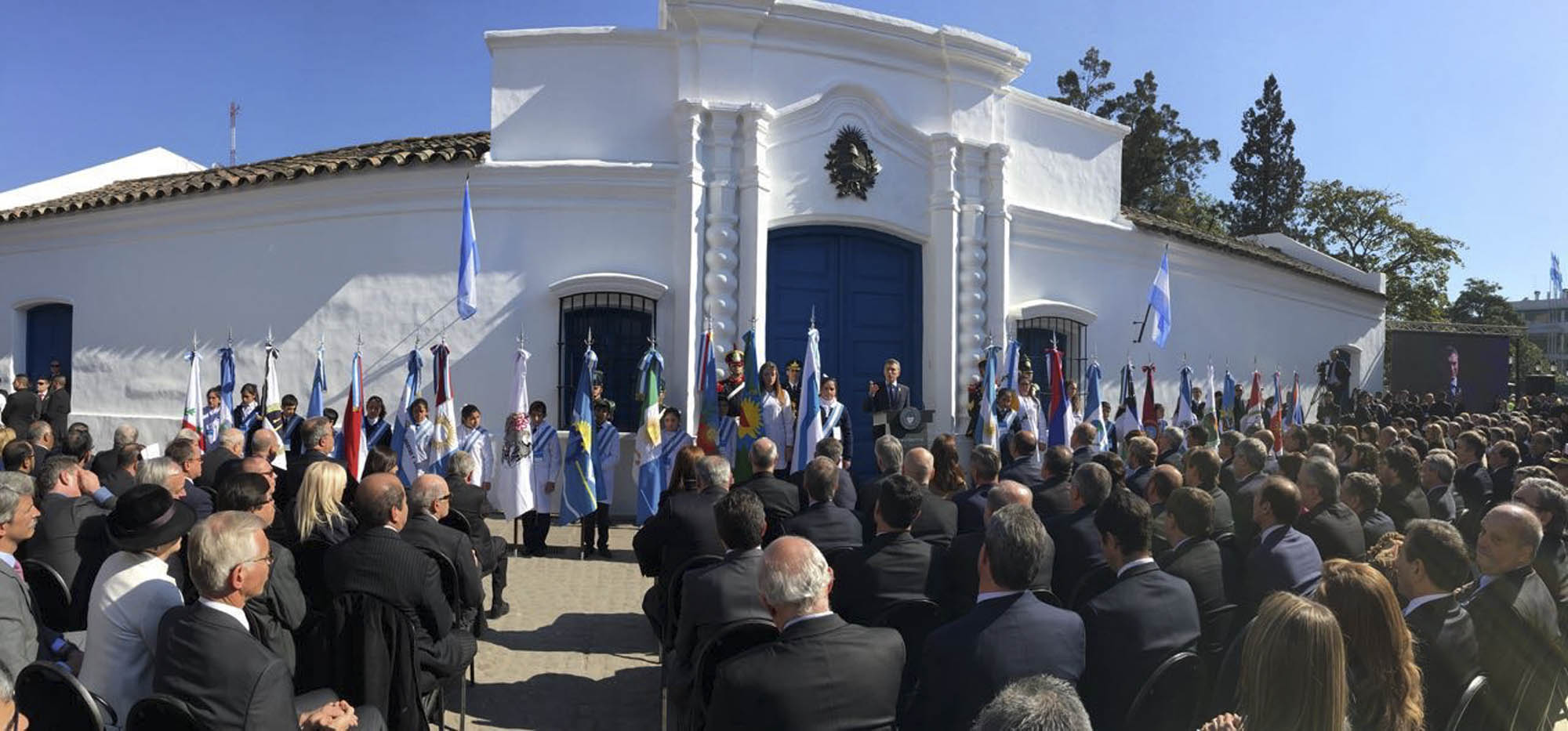 Bicentenario de Argentina en Tucumán